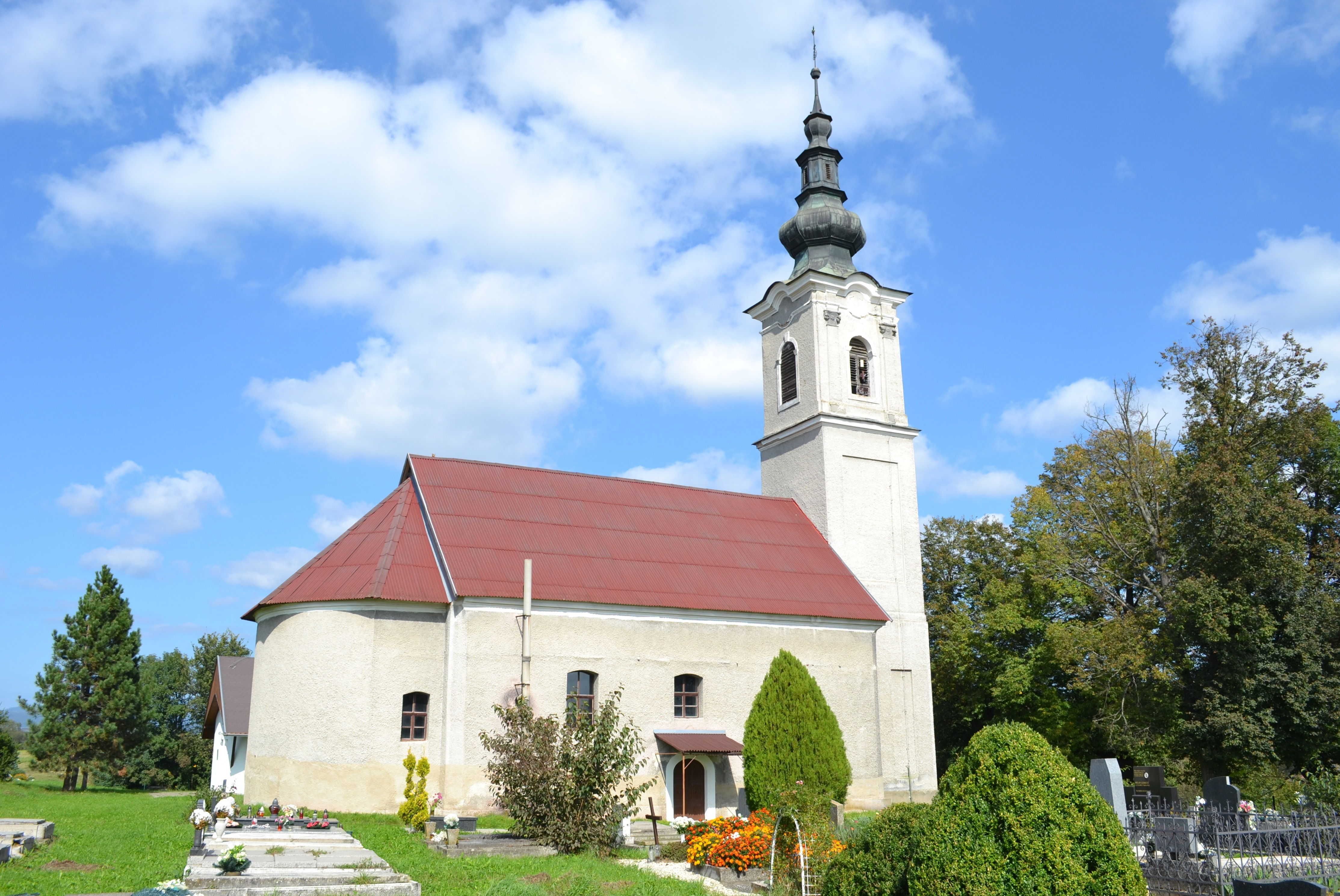 Lutheran church in the village Veľké TeriakovceSlovenčina: Veľké Teriakovce - Evanjelický kostol